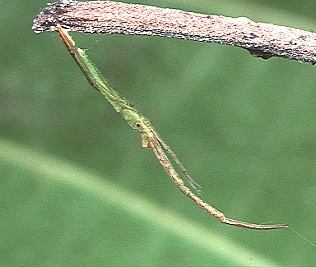 Male of Miagrammopes oblongus from Okinawa (Japan).